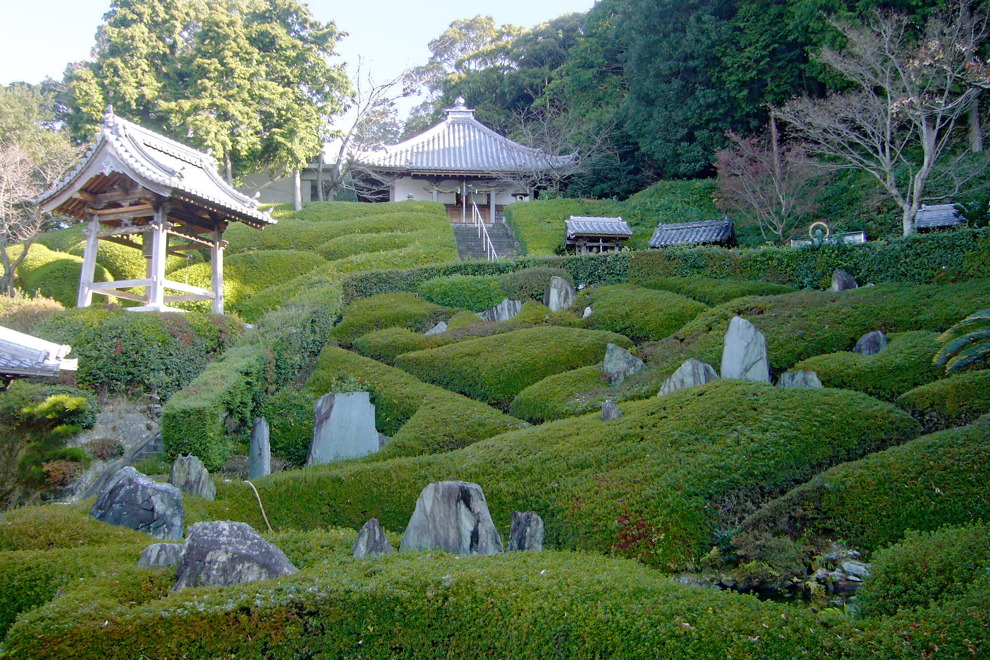 Rinsho-ji in Sennan, Osaka prefecture, Japan